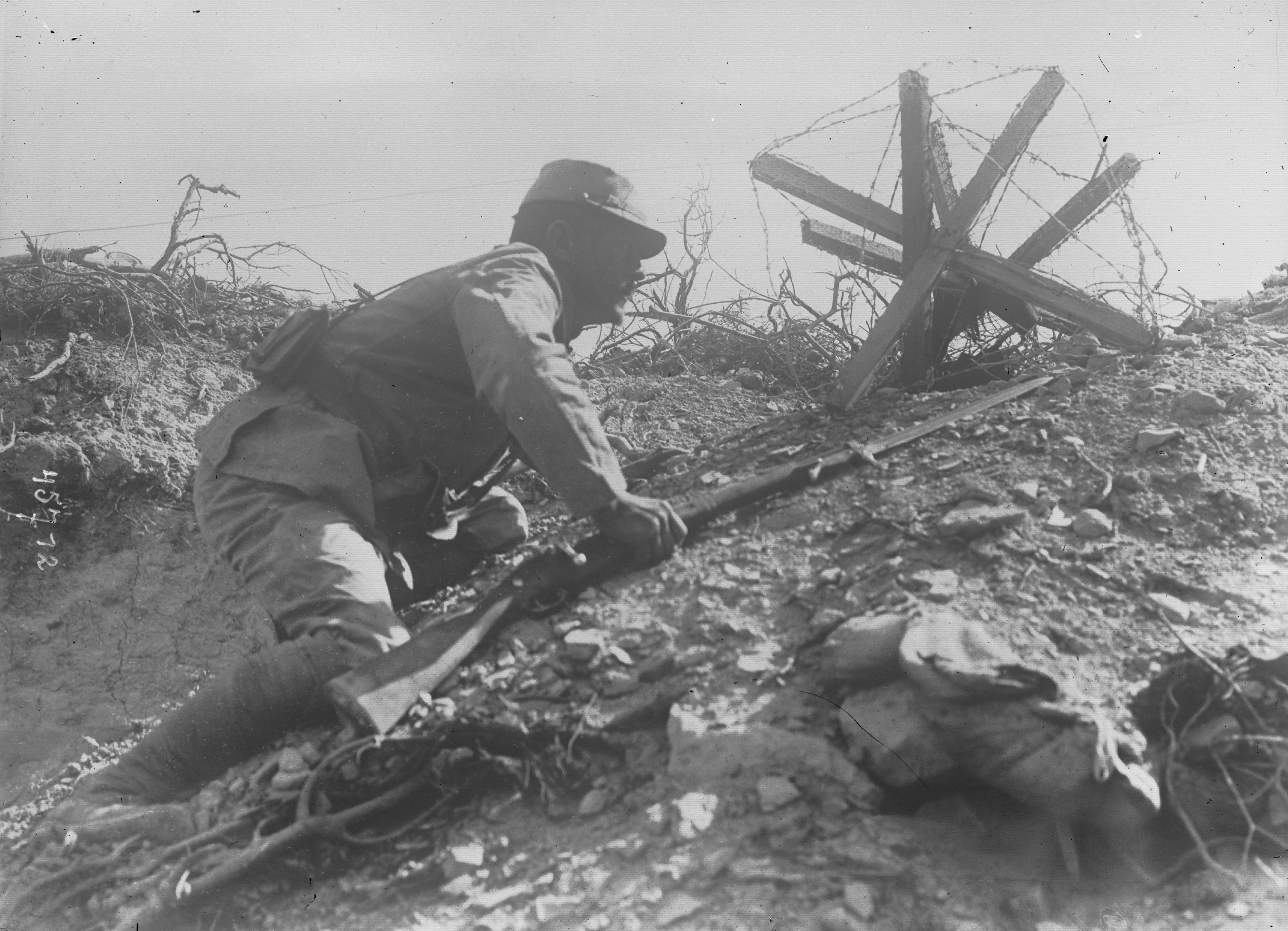 The Dardanelles, crawling soldier son behind barbed wire. 1915.